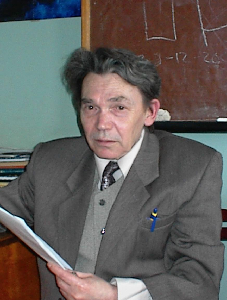 This is a color photo of Professor Victor Toponogov, a famous Russian geometer. Made by Sergej Treskov at Sobolev Institute of Mathematics (Novosibirsk, Russia) March 23, 2001.